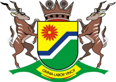 Ibheji lesifundazwe seMpumalanga